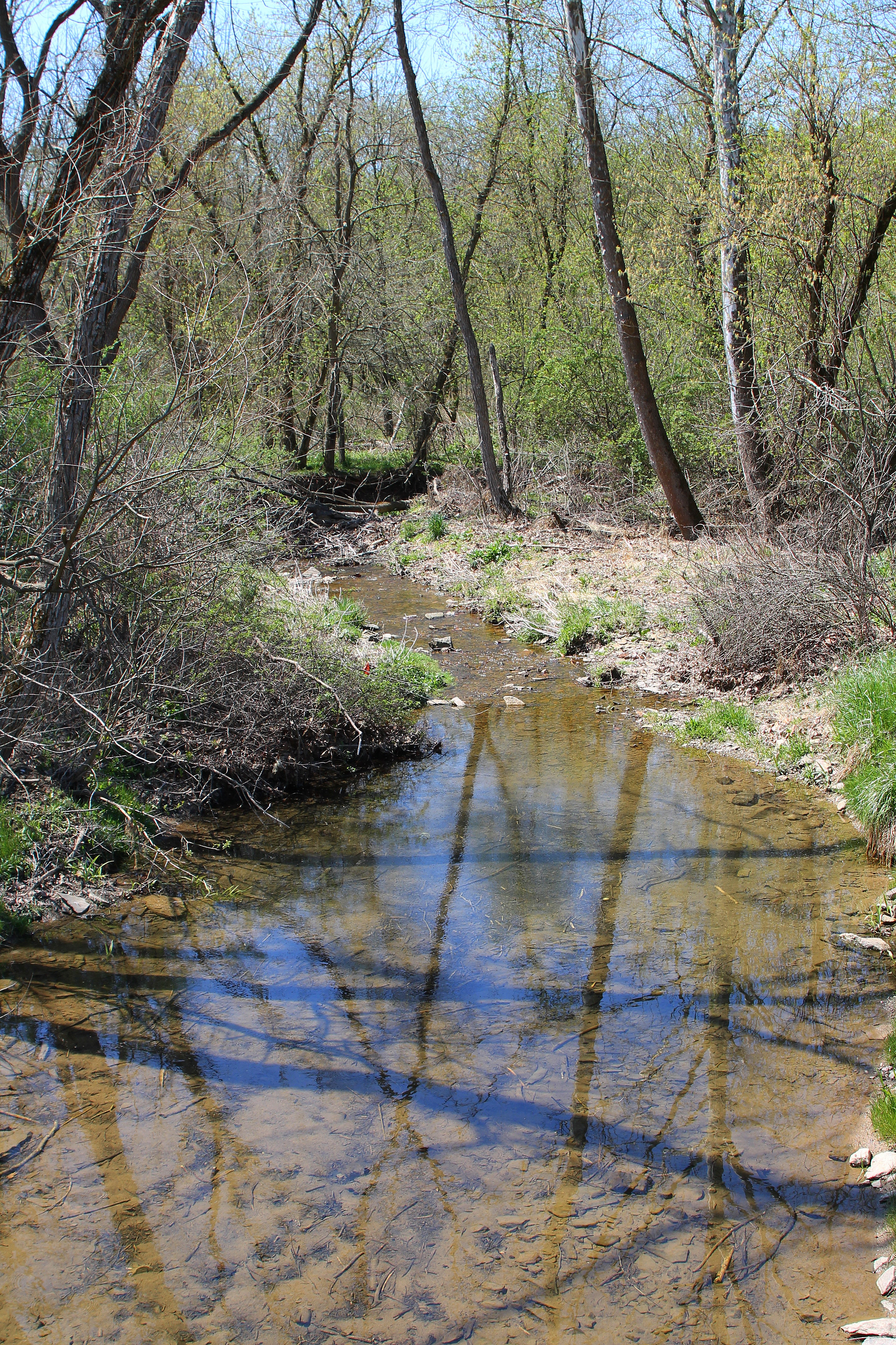 Shepman Run, a tributary of Little Muncy Creek in Lycoming County, Pennsylvania, looking downstream in its lower reaches.